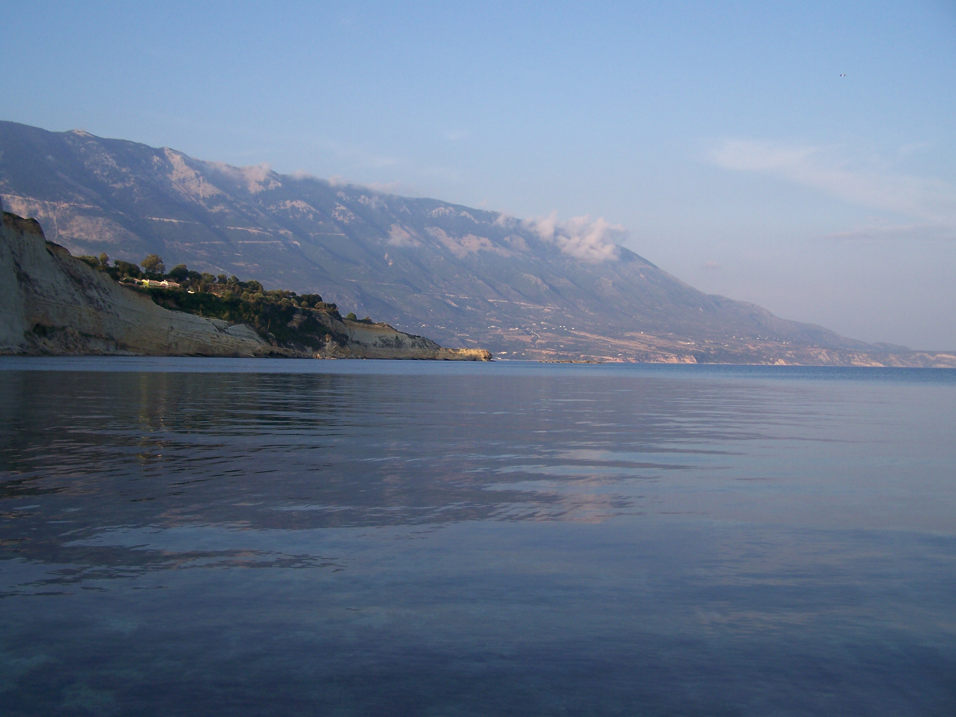 Mount Ainos, Kefalonia, Greece